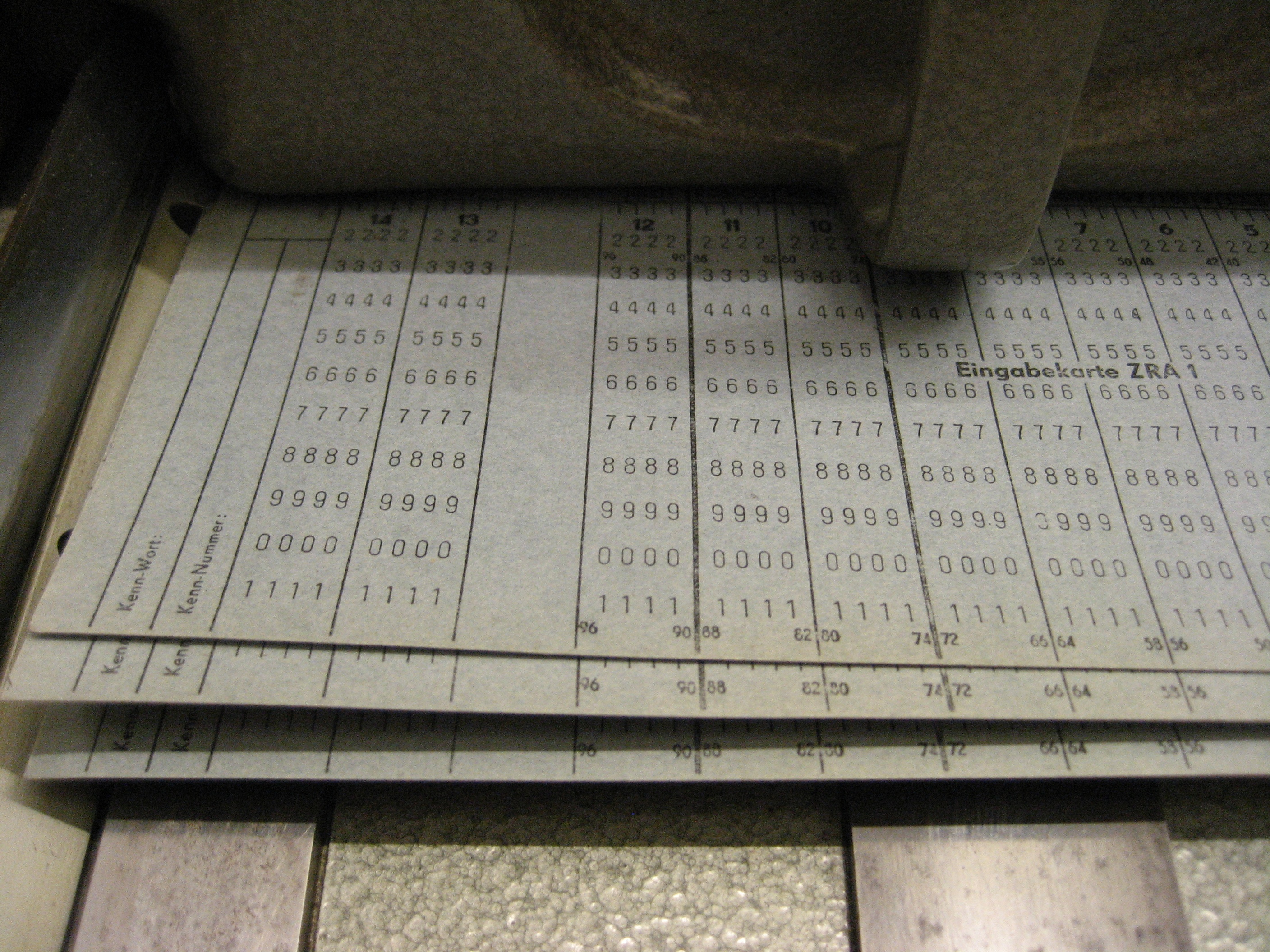 Punchcards for the ZRA 1